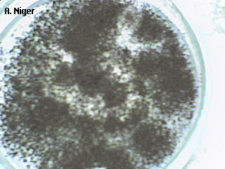 A. niger in PDA grow media